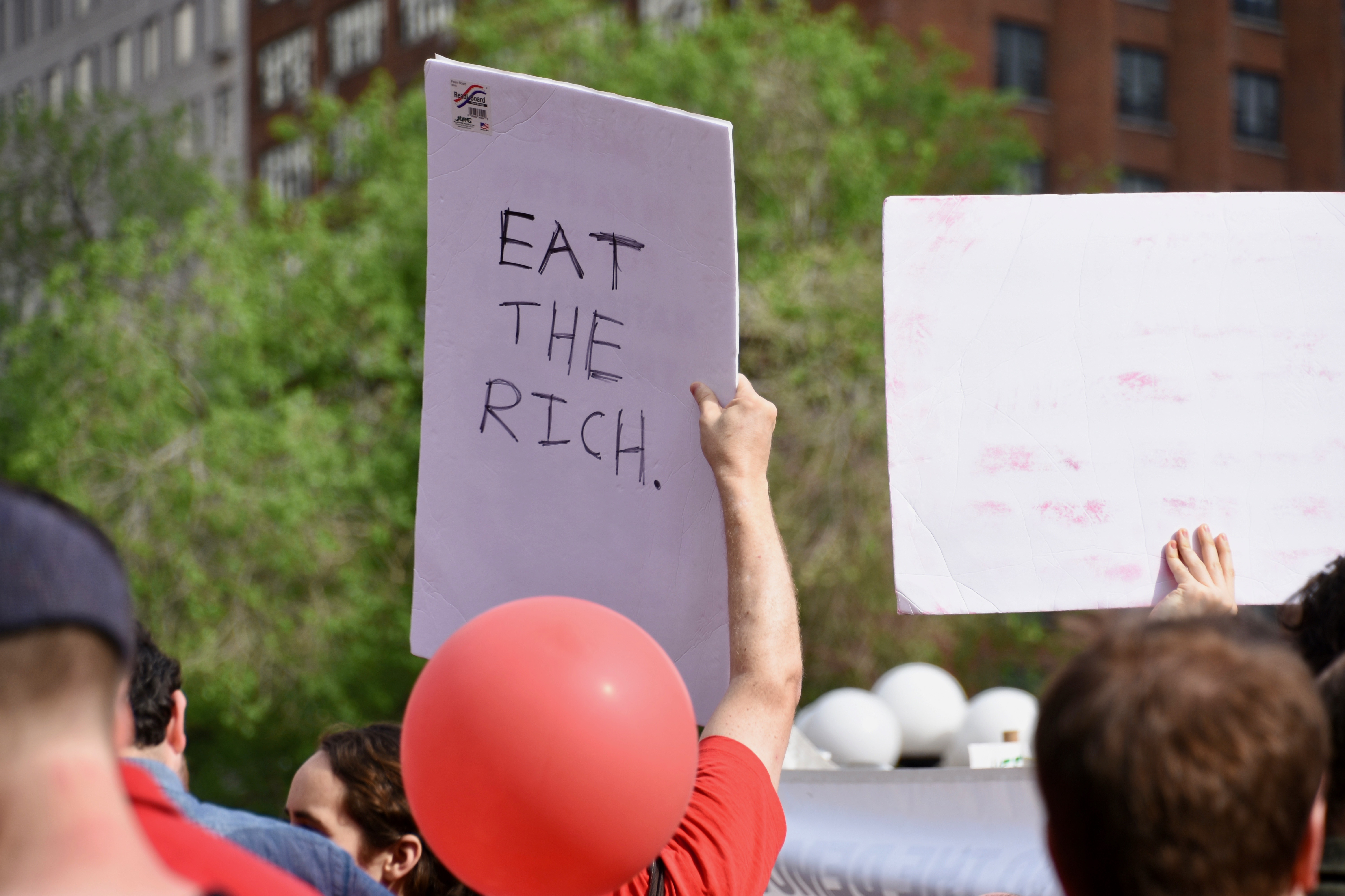 Eat the rich May Day 2017 in New York City